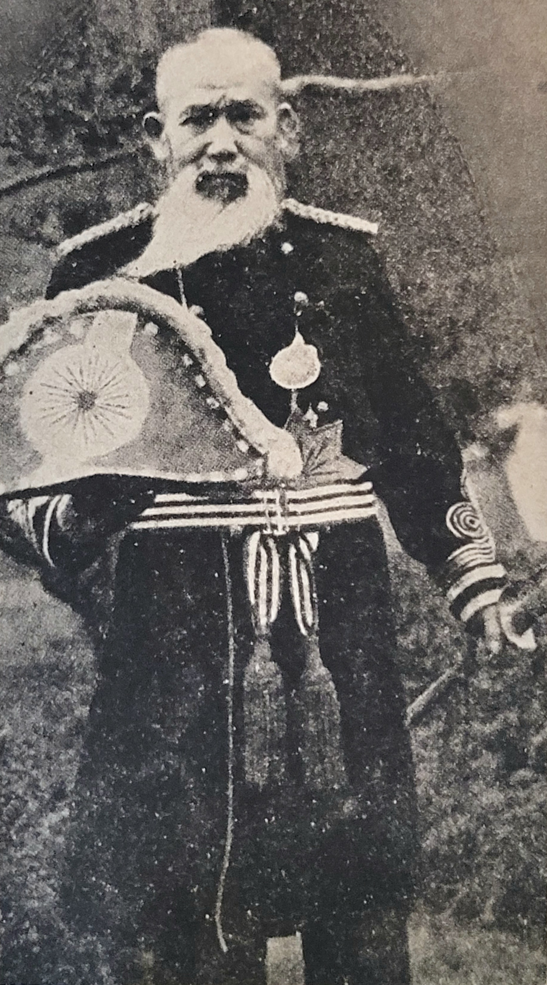 Kinjiro Ashihara (Japanese famous Schizophrenia patient, so-called "General Ashihara")